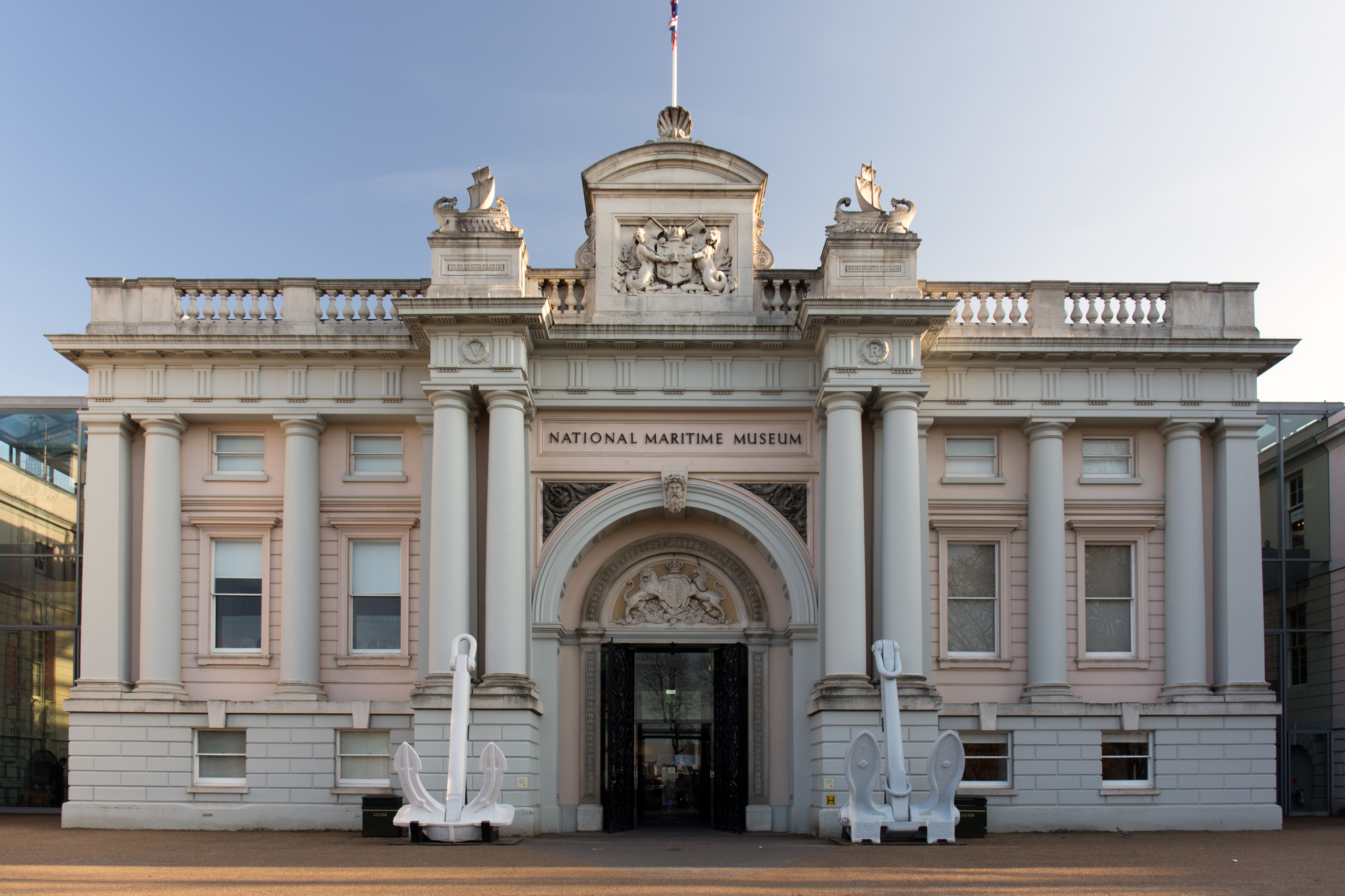 Entrance of the National Maritime Museum, London